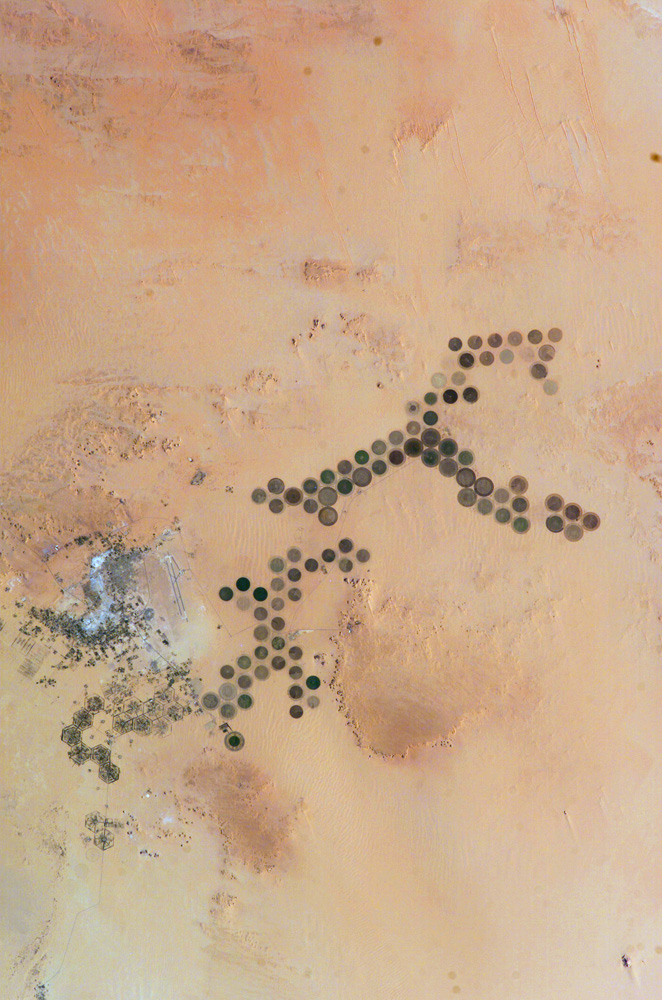 Green Circles in Kufra Oasis, Libya